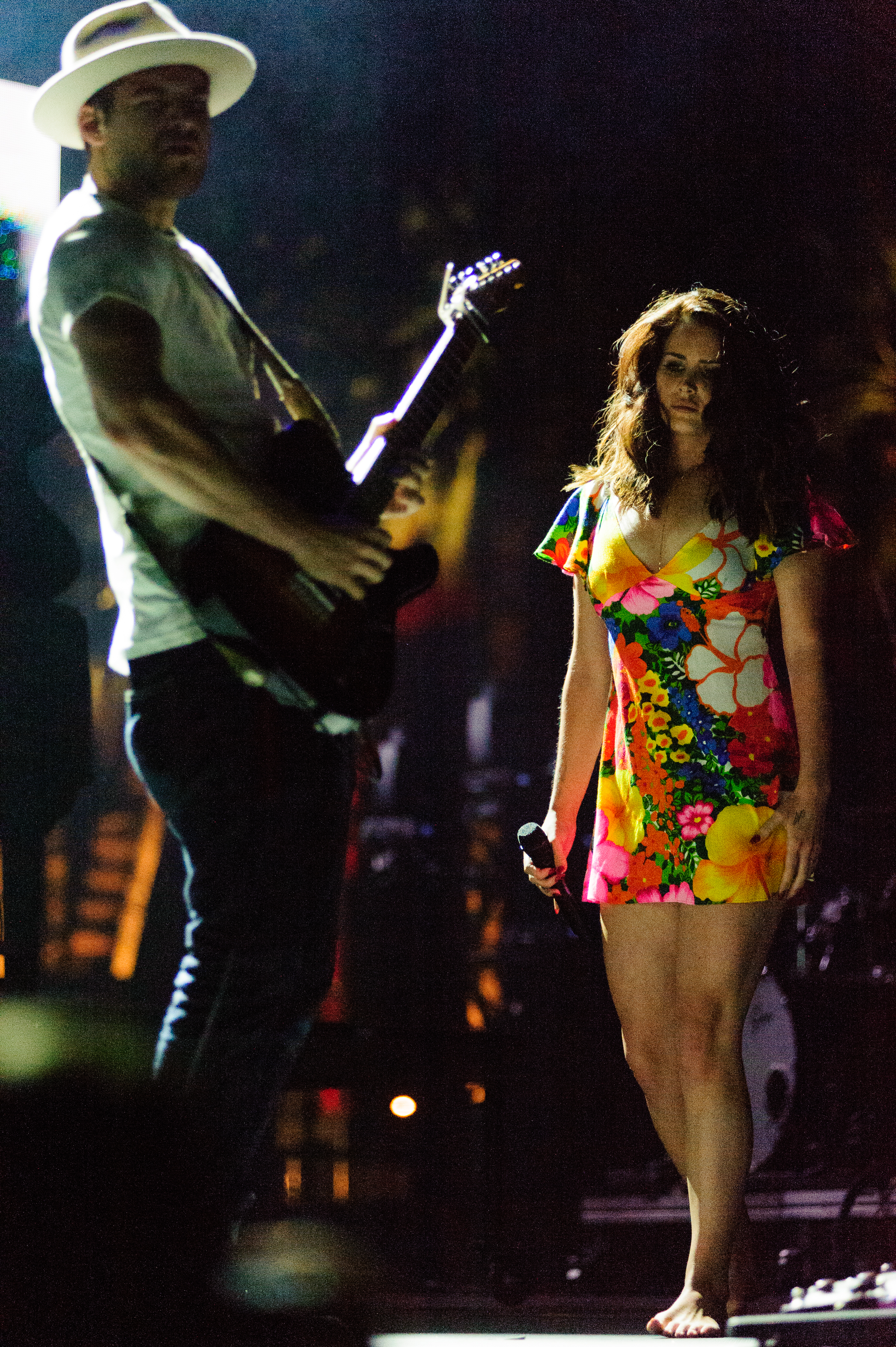 Lana Del Rey performing at Coachella, Weekend 2